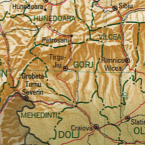 Map of Gorj County, Romania.